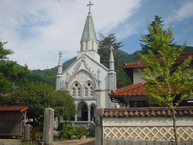 Catholic Church at Tsuwano Photograph © Ian Ruxton (Historian), en:11 September, en:2004.